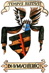 Ohmucevic